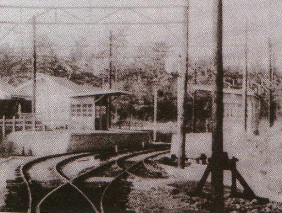 Shintetsu Shijimi station in 1937